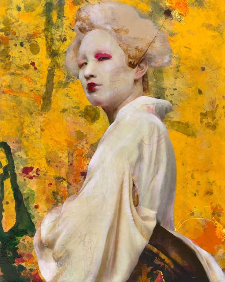 Dried Tear 52, by Lita Cabellut